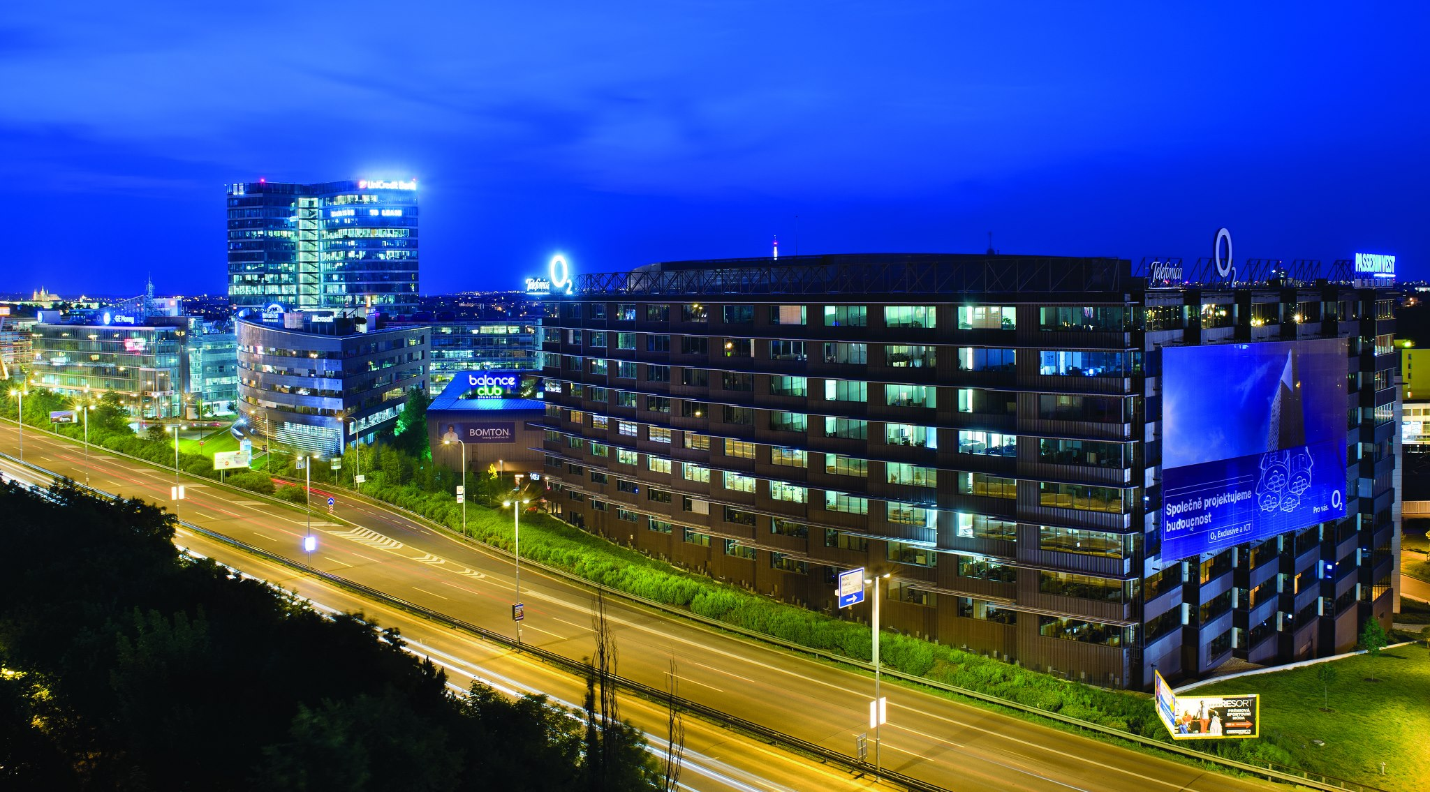 BB Centrum Business District in Prague